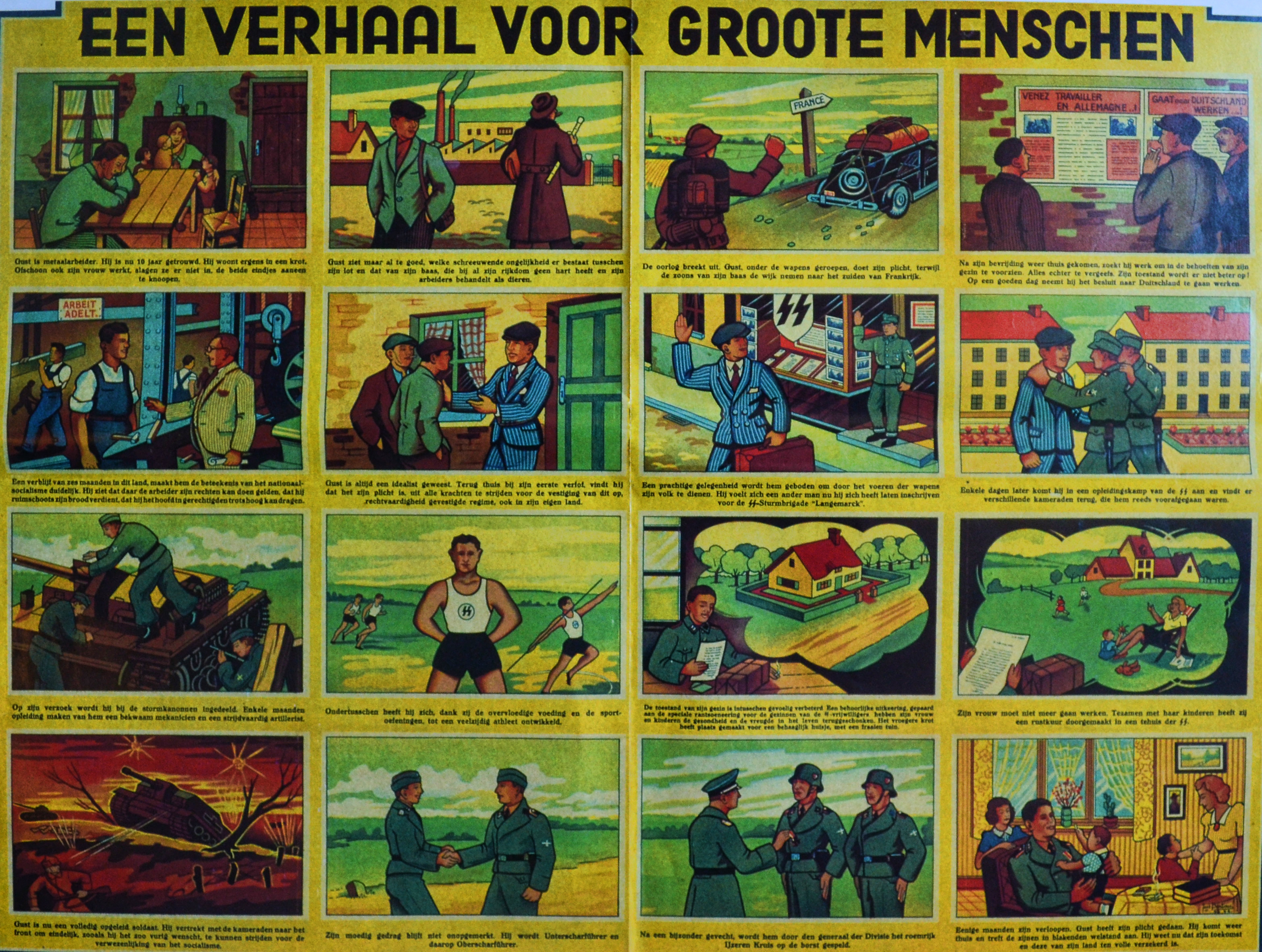 propaganda recruiting poster Of 27th SS Volunteer Division Langemarck with Title: a story voor adults